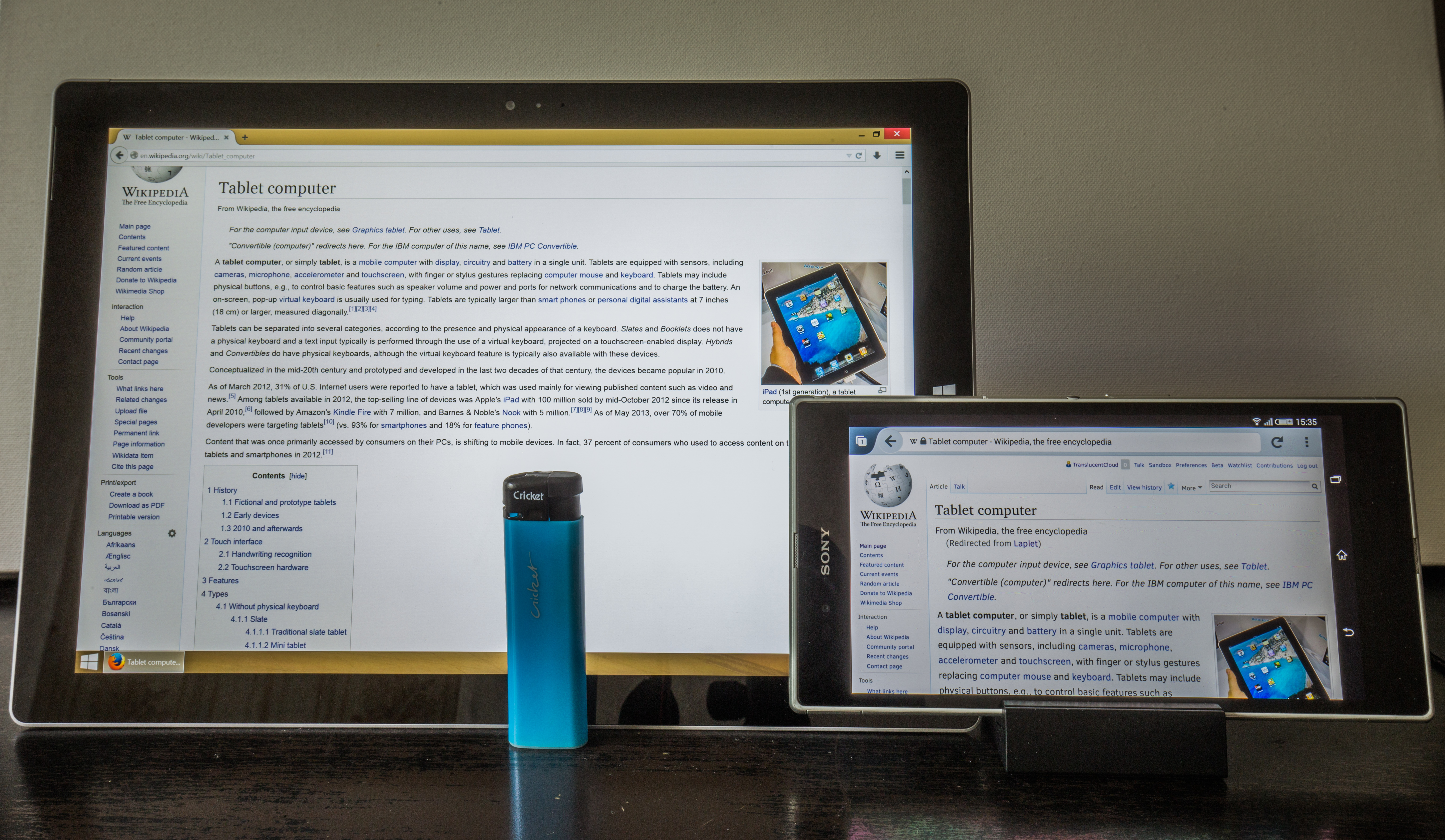 Microsoft Surface Pro 3 2-in-1 detachable tablet, Sony Xperia Z Ultra phablet and a Cricket lighter.